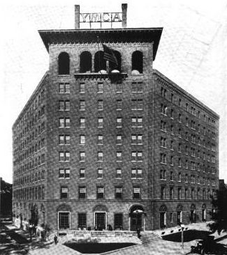 Image 7: A John F. Jackson-designed YMCA in Rochester, NY. Source: "Central YMCA, Rochester, N.Y. John F. Jackson." Architectural Record. January 1919. p. 426.